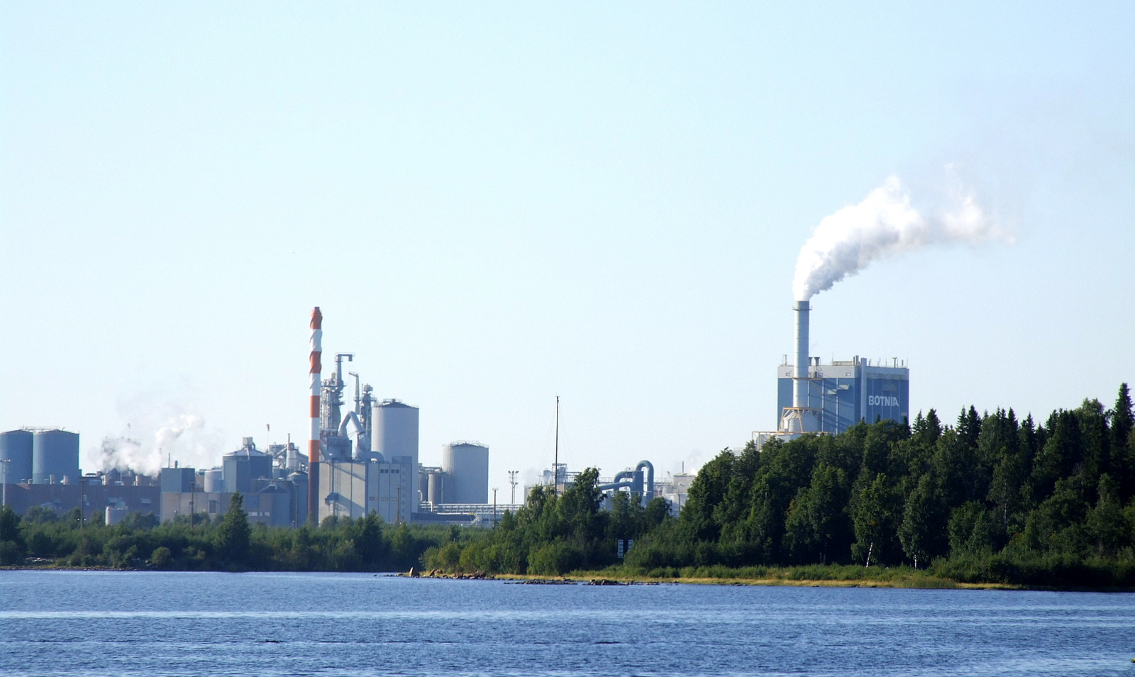 The pulp mill of Metsä-Botnia Oy in Kemi, Finland.